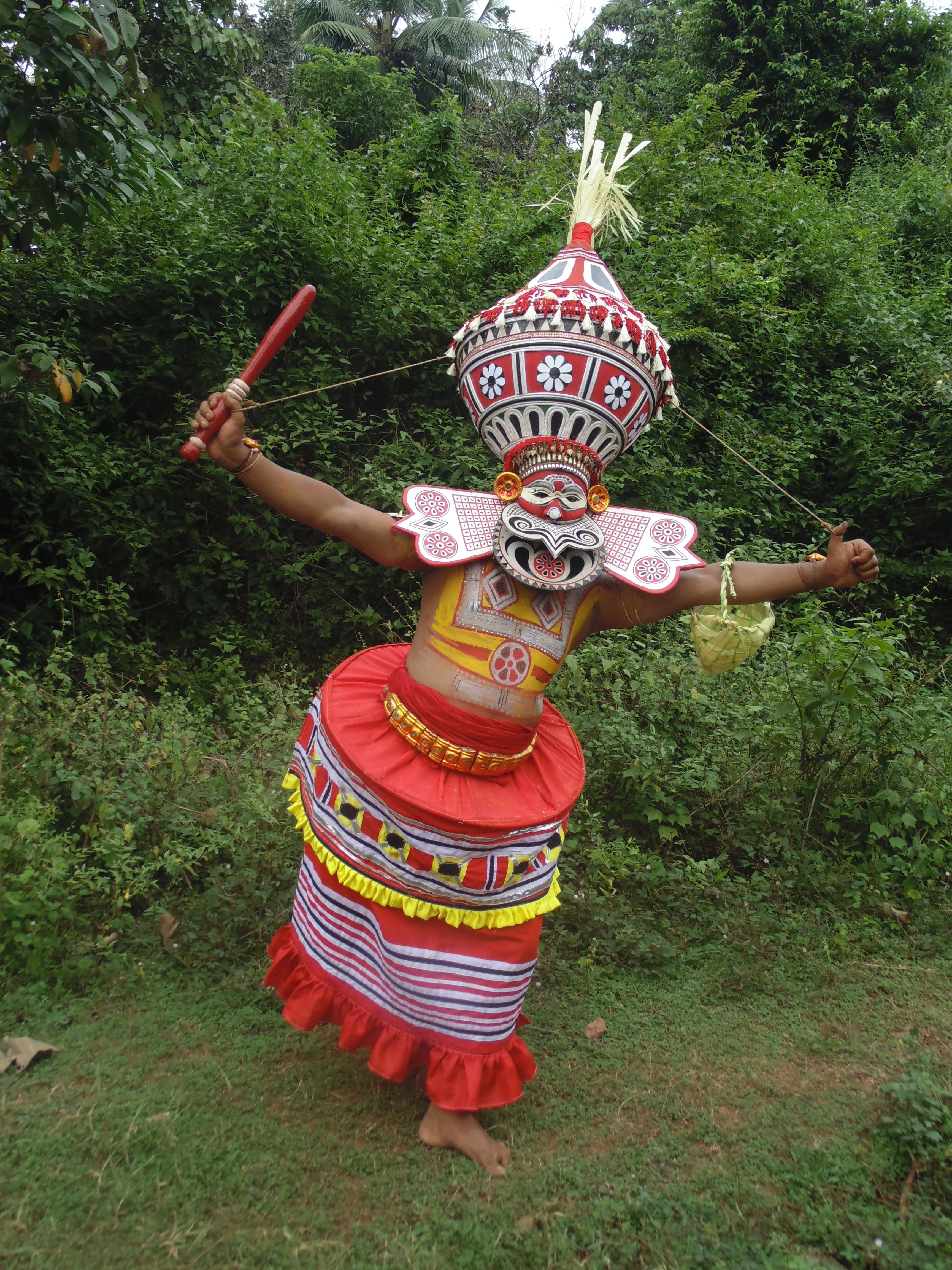 Thirayattam - Mother of Ethnic Dances dances